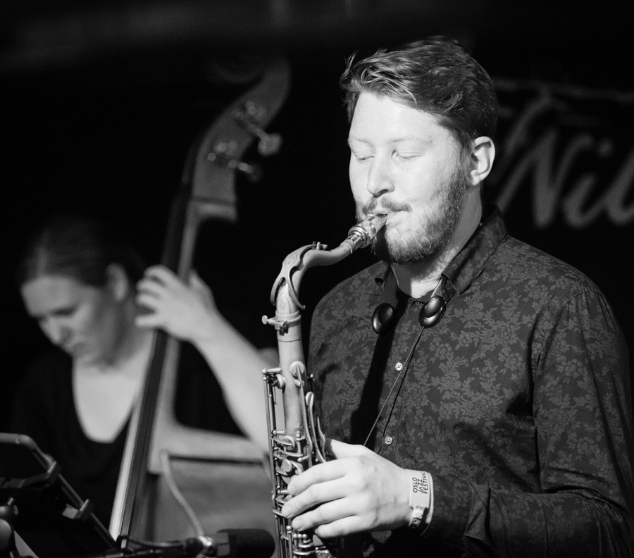 Magnus Bakken in a concert with Jens Wendelboe Kvintett at Herr Nilsen. The concert was part of Oslo Jazzfestival and took place on 13. August 2019 in Oslo. Lineup:Jens Wendelboe (trombone)Magnus Bakken (saxophone)Ellen Brekken (double bass)Torgeir Koppang (piano)Erik Smith (drums)Stephanie Harrison (backing vocal)